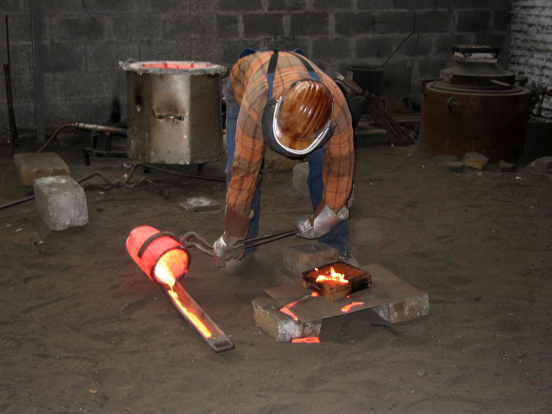 Bronze casting